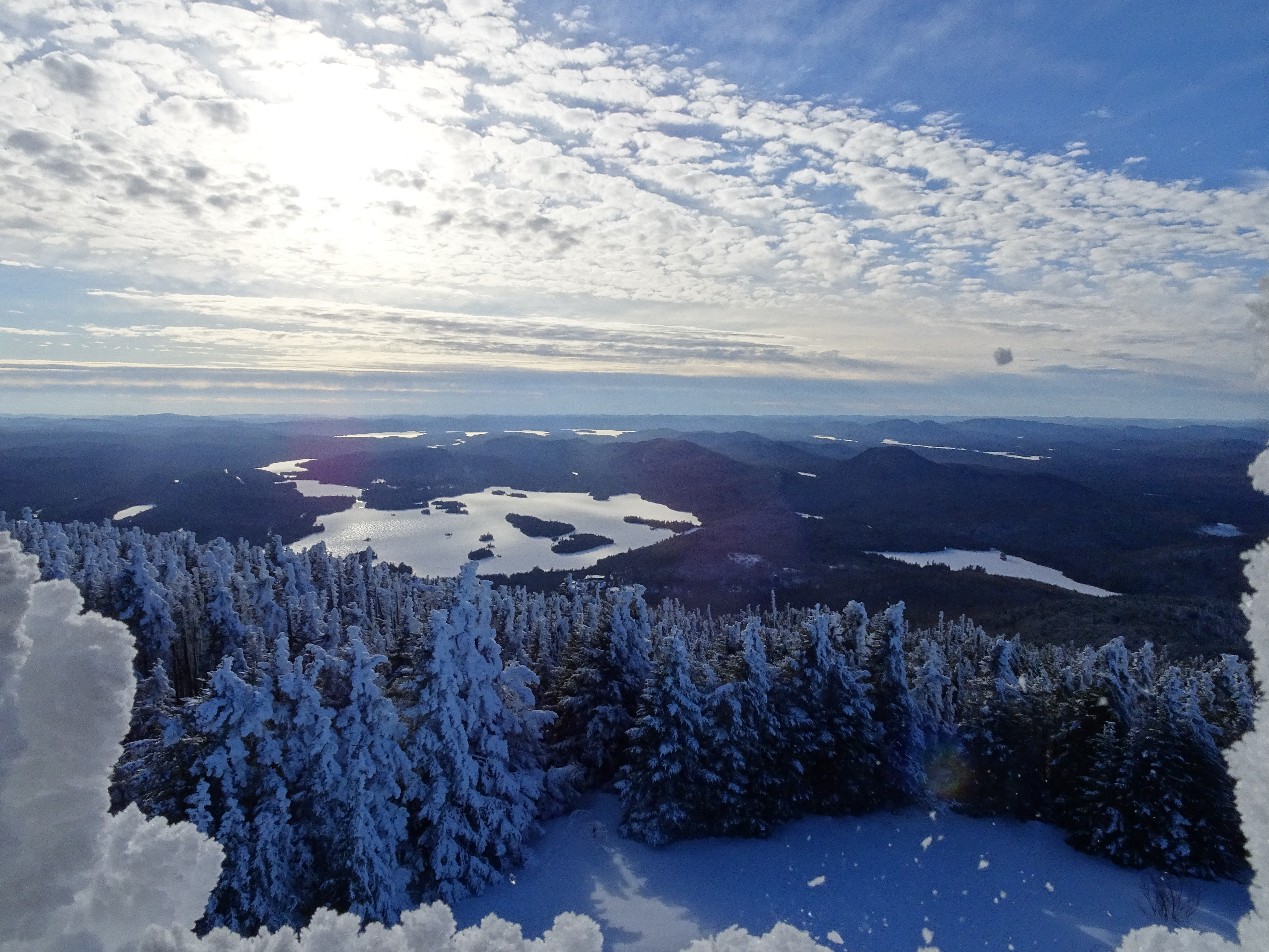 View from the fire tower on Blue Mountain (New York) on March 6, 2018.